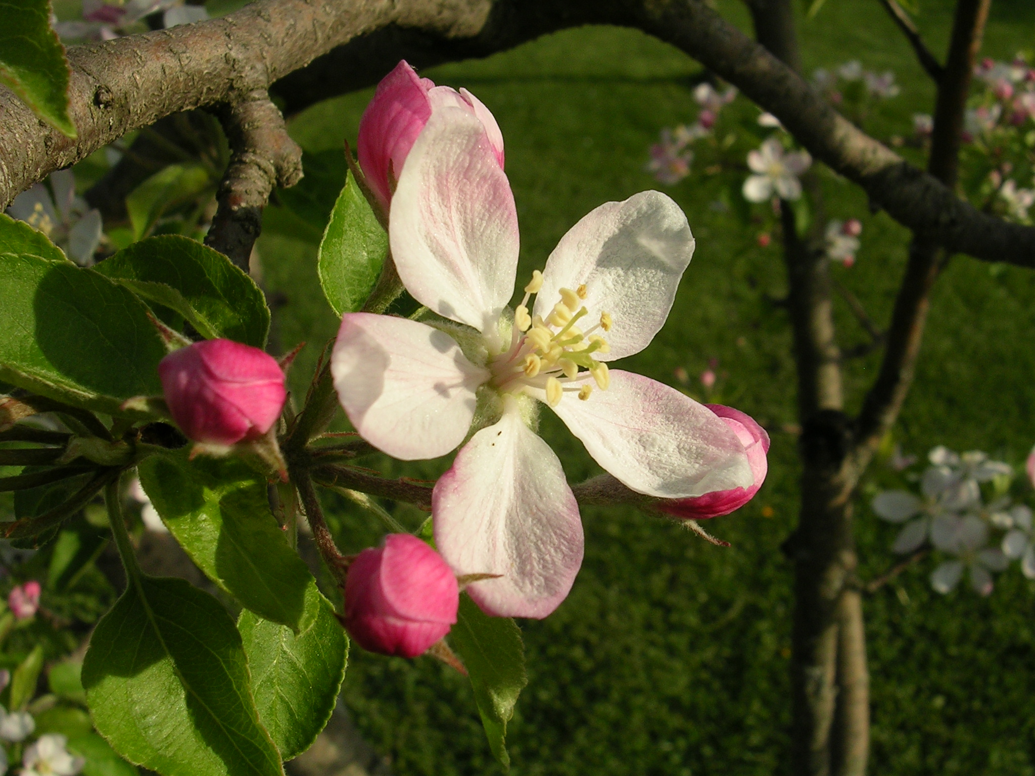 Apple Blossom